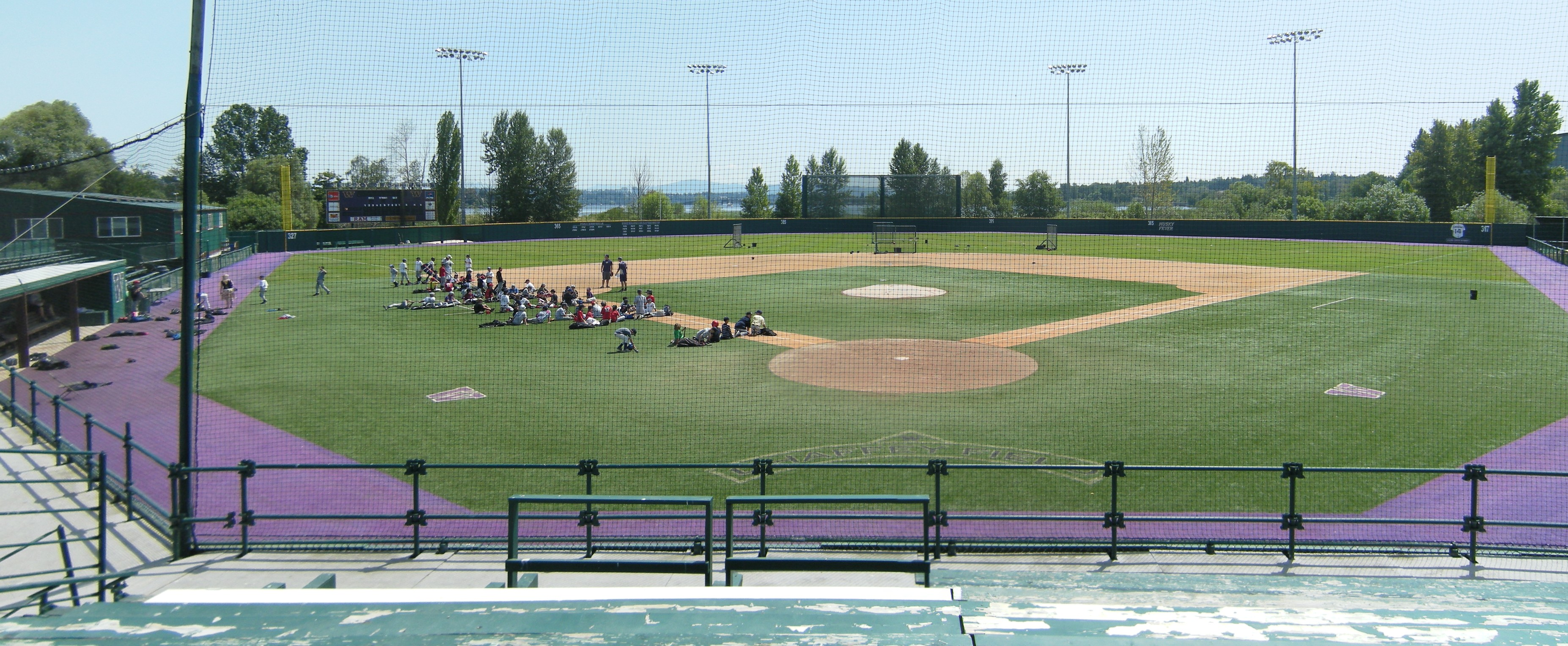 Chaffey Field at Husky Ballpark, University of Washington, Seattle, Washington. This image was created with Hugin. Stitched together from two photos